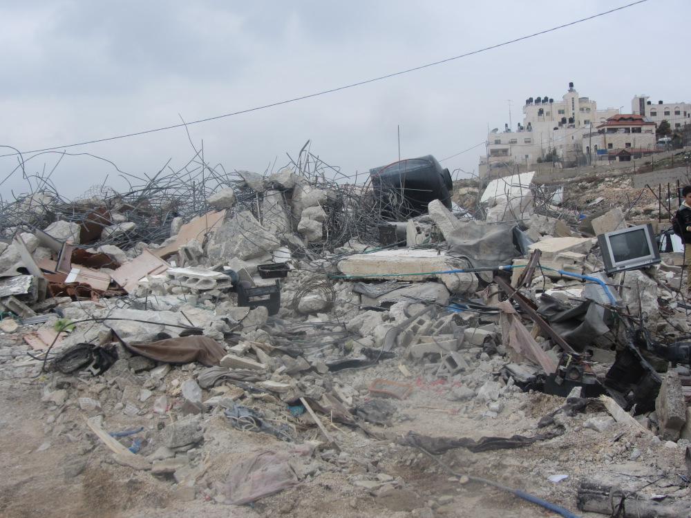 Ruins of the home of Fatenah and ‘Azzam Idris, Beit Hanina. There had been two apartments in the building: one was home to the 8-member Idris family and the other to their relative Mai who lived there with her husband Baha a-Deb’i and their two minor children.